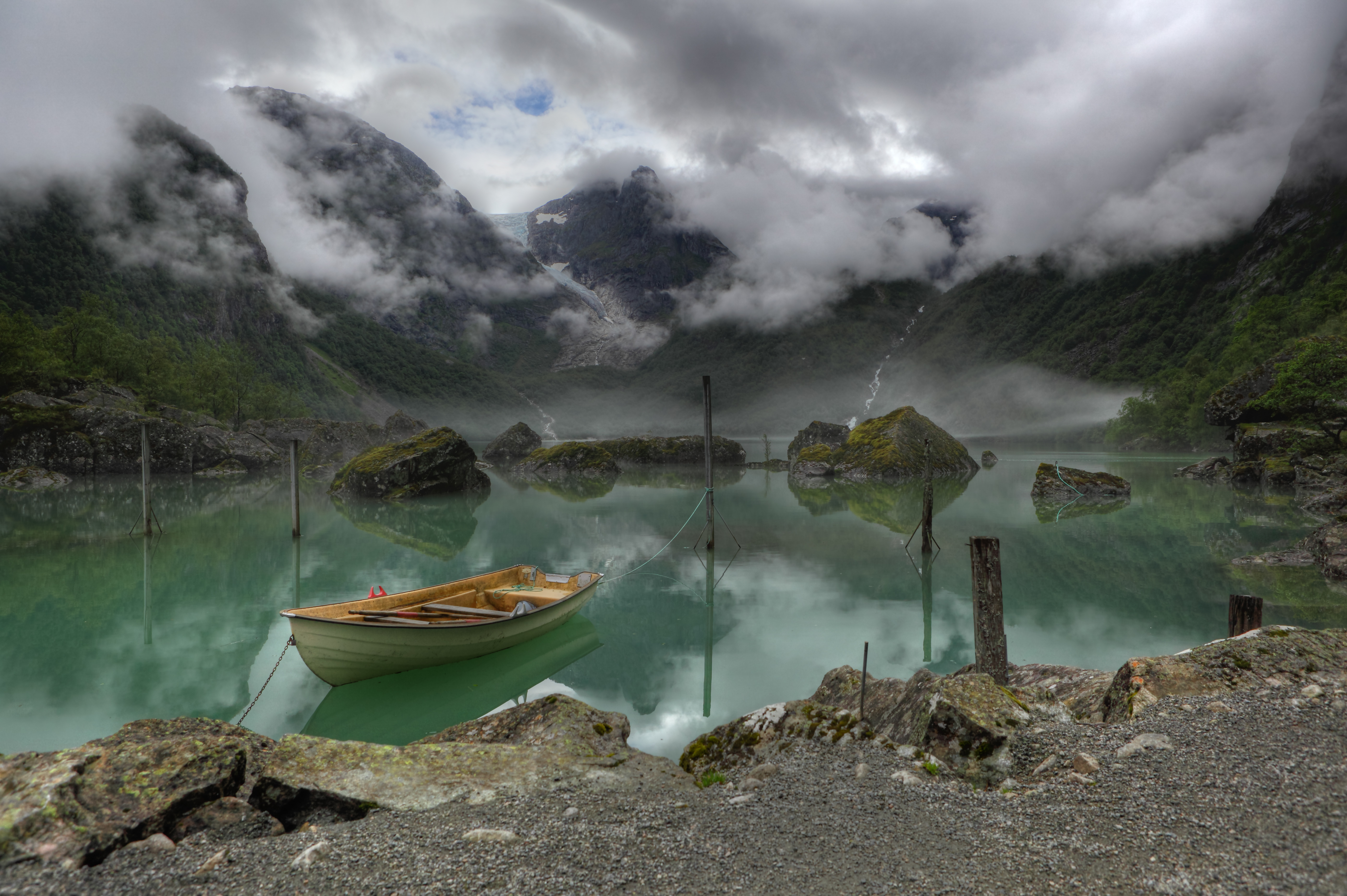 A view of Lake Bondhus in Norway, and in the background of the Bondhus glacier, part of the Folgefonna National Park.